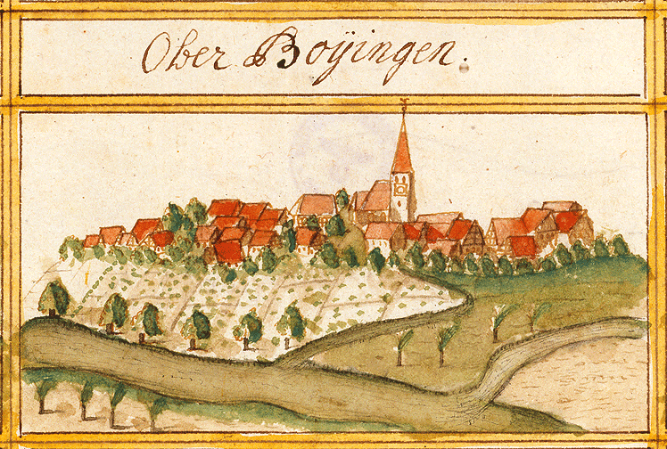 View of Oberboihingen from the forest register books created by Andreas Kieser